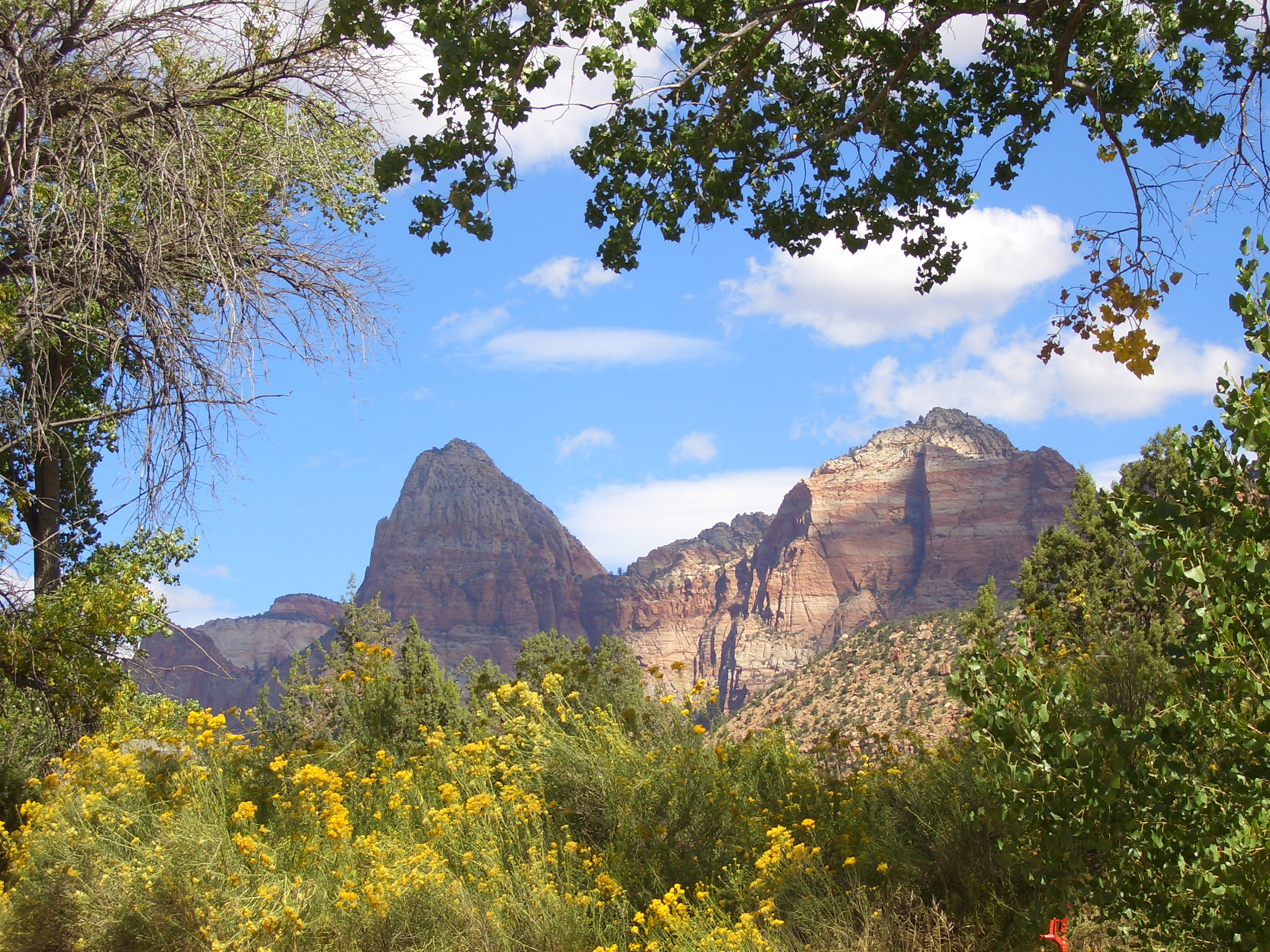 Zion Canyon